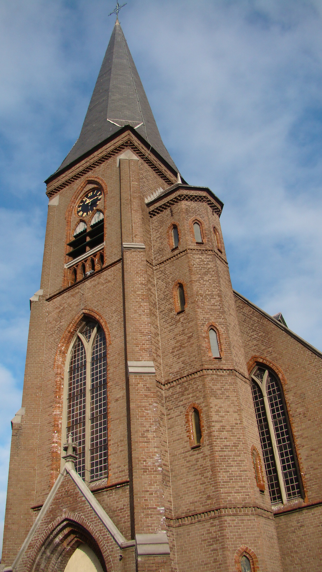 Catholic church at Wijk aan Zee (Netherlands)